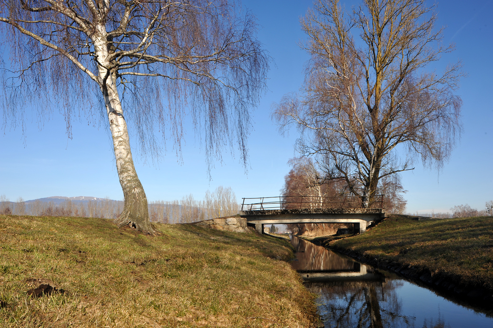 Bridge over the formerly navigable Canal d'Entreroches near Bavois; Vaud, Switzerland.